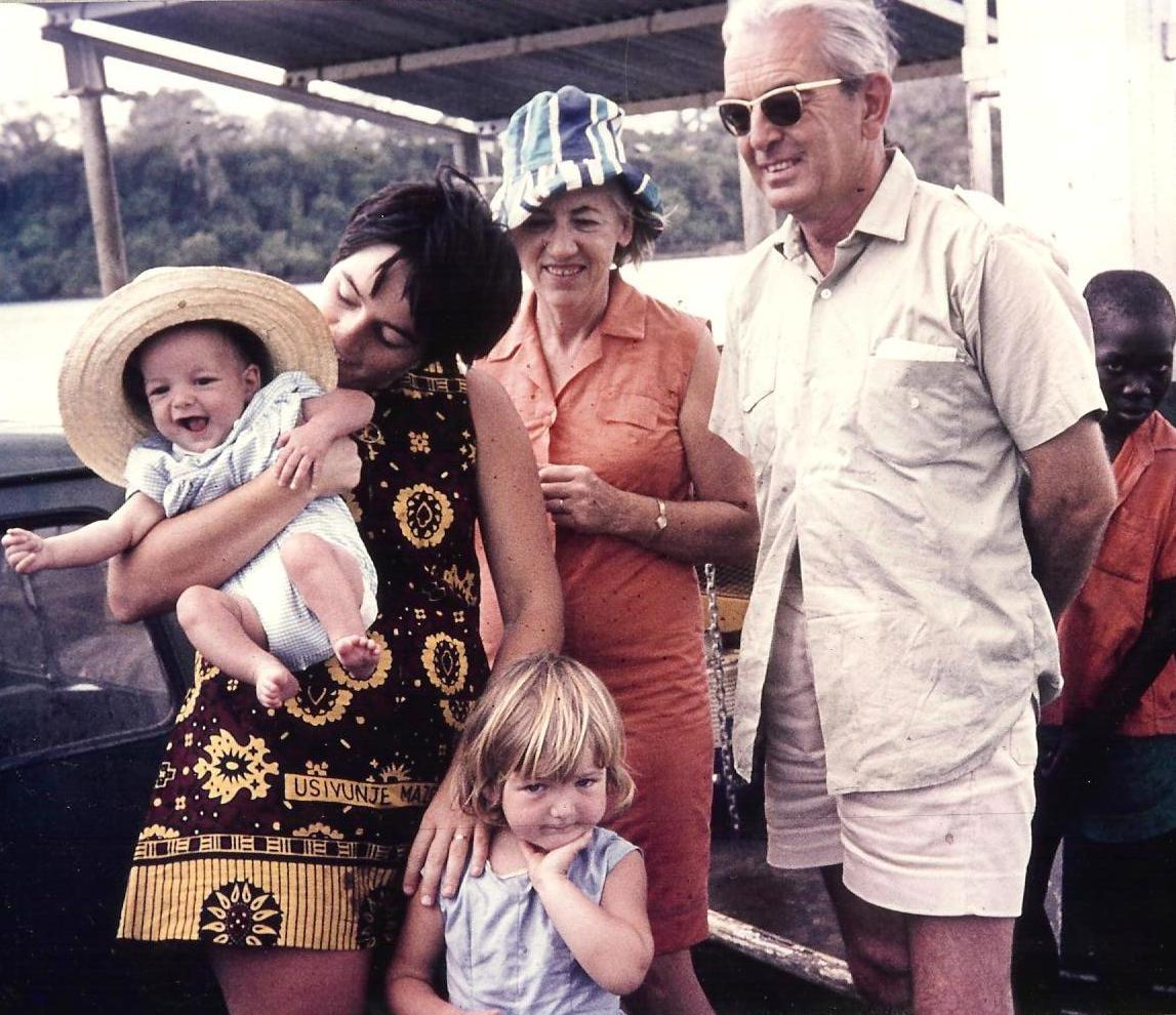 Photo taken by the contributor on the Kilifi ferry